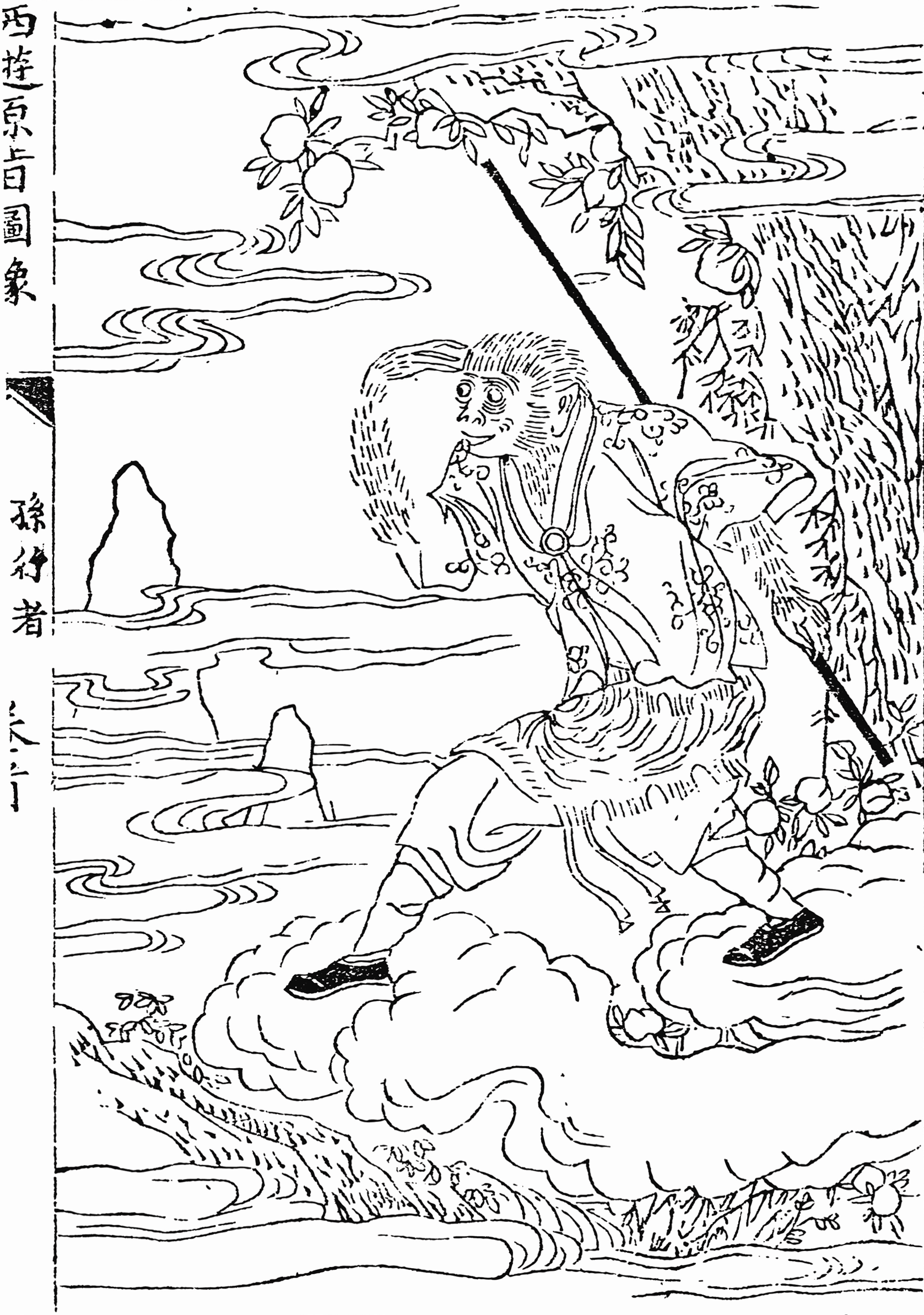 A 19th-century illustration of the character Sun Wukong, or "the Wanderer Sun".